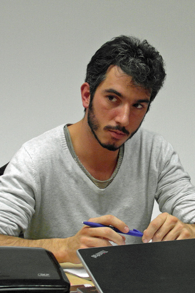 The Italian journalist and human rights activist Gabriele del Grande (29.11.2013, holding a lecture about Syria in the Psychosocial Centre for Refugees Düsseldorf)